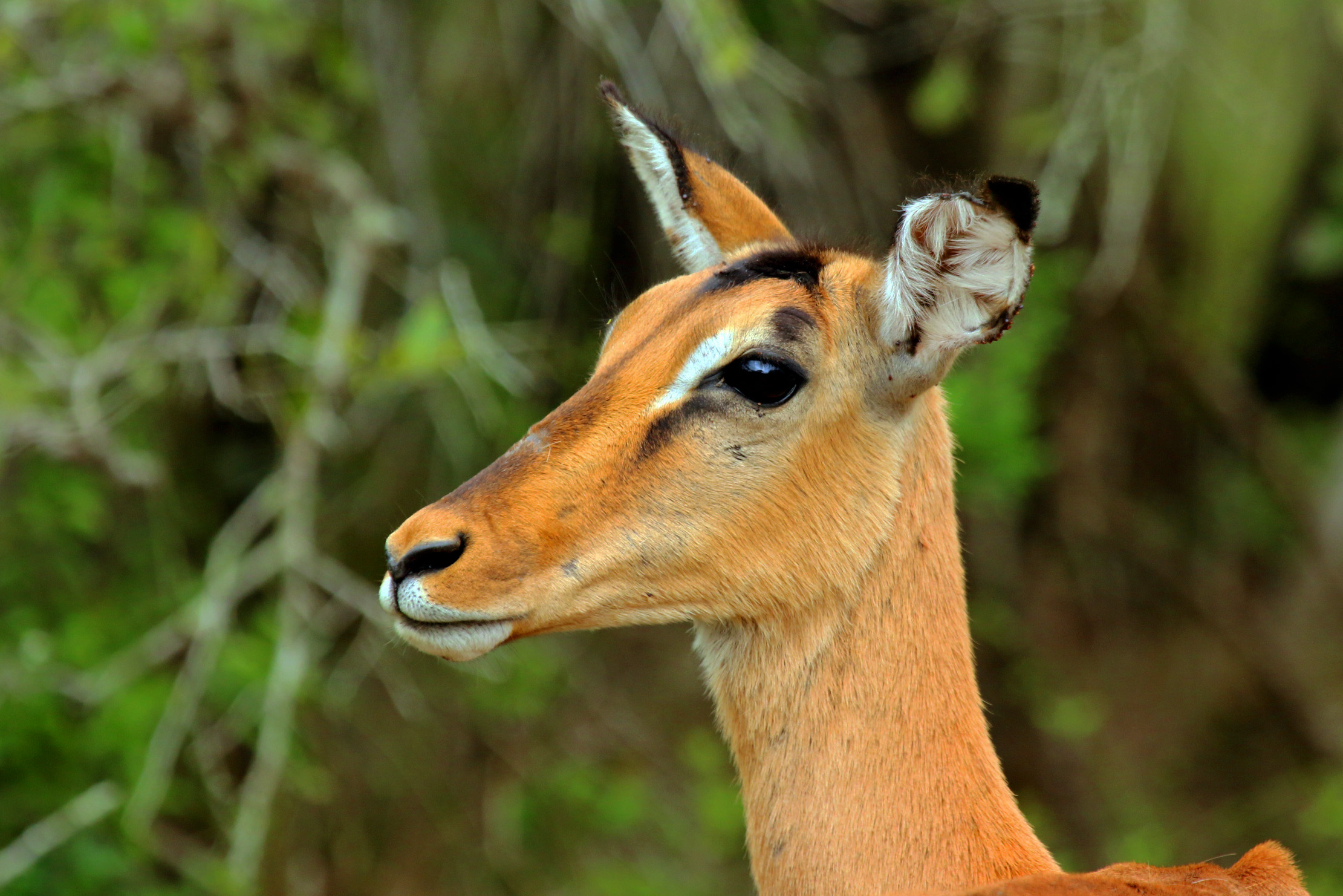 Impala (Aepyceros melampus) female head, Phinda Private Game Reserve, KwaZulu Natal, South Africa